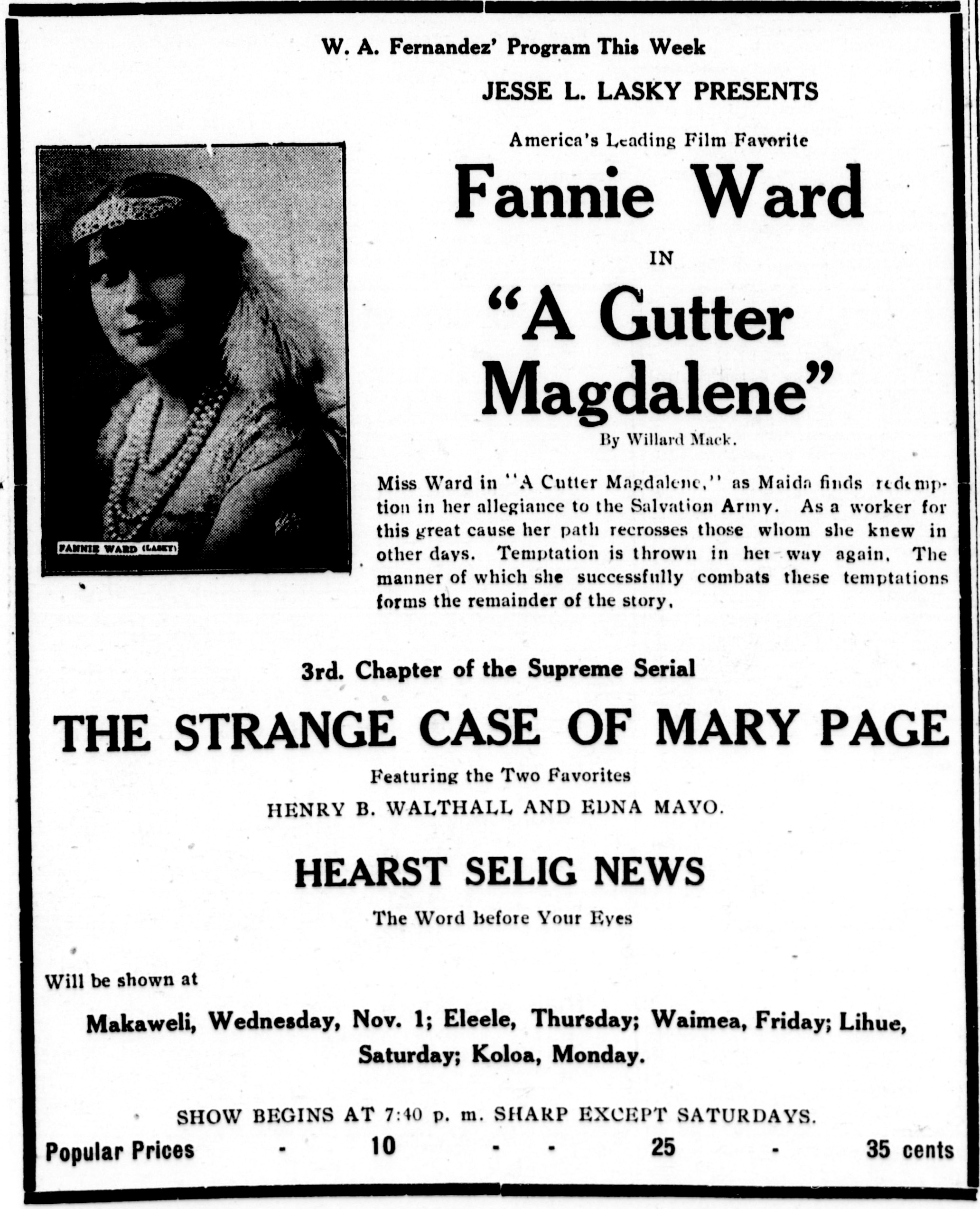 A Gutter Magdalene (1916). is a 1916 American drama silent film directed by George Melford and written by Clinton Stagg. This is a newspaper advert for the film.